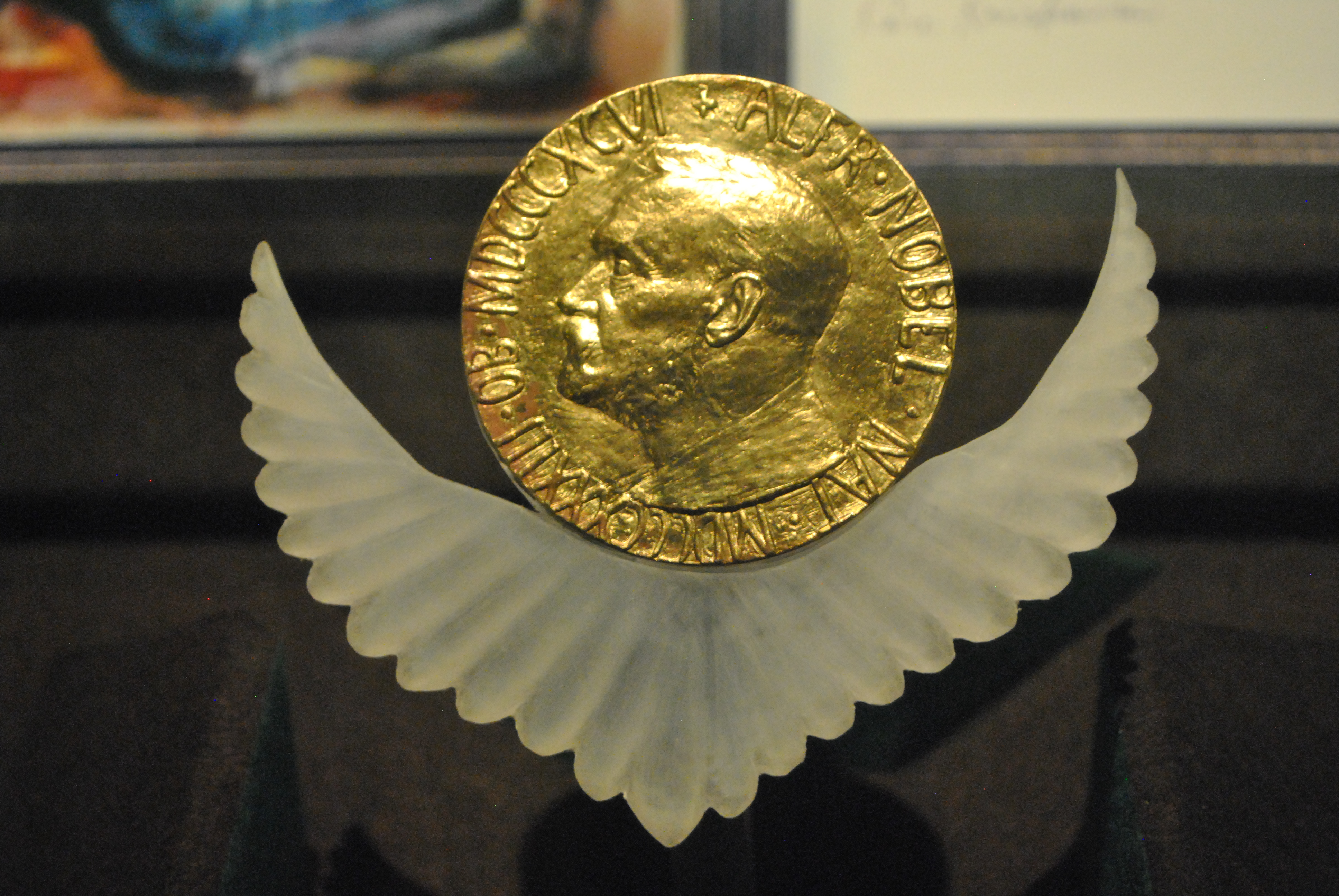 Nobel Peace Prize medal that was given to Rigoberta Menchú and is protected in the Templo Mayor Museum in Mexico City.